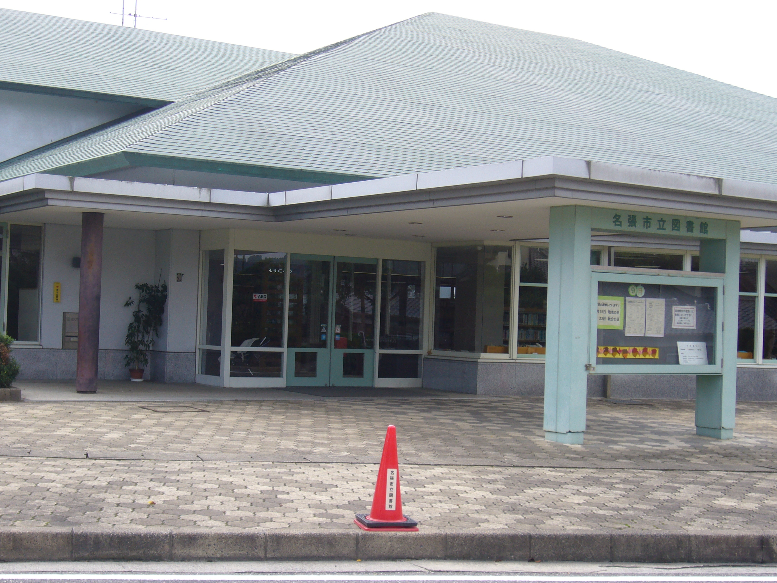 Nabari city library entrance